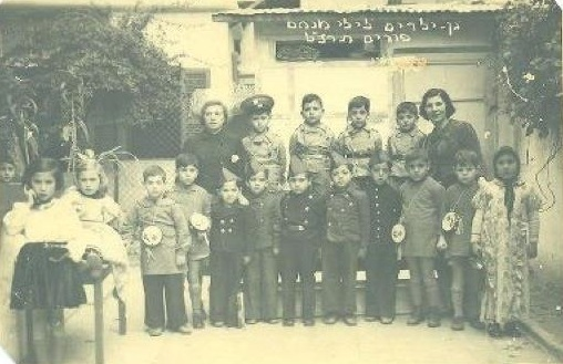 Purim in Lili Menachem Kindergarten in 1939